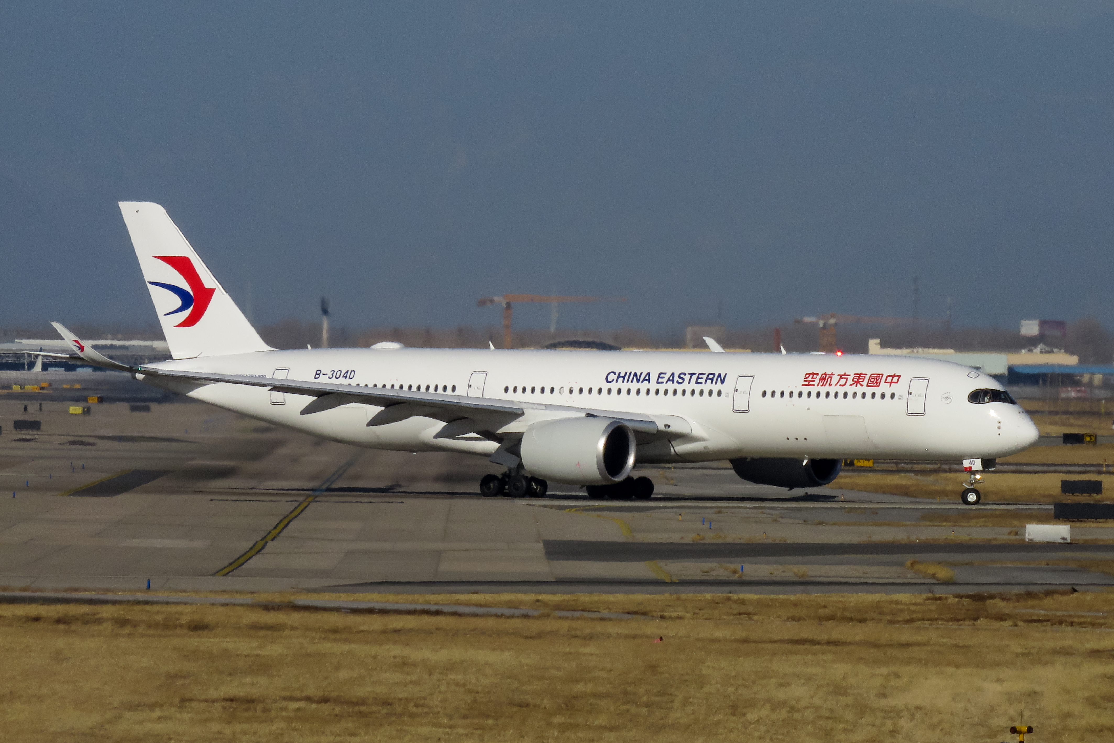 China Eastern 5112 to Shanghai Hongqiao. The 115th anniversary of powered flight is summoned by this A350 (MSN 248) and later B-1080 (MSN 247), two contiguous fellows.